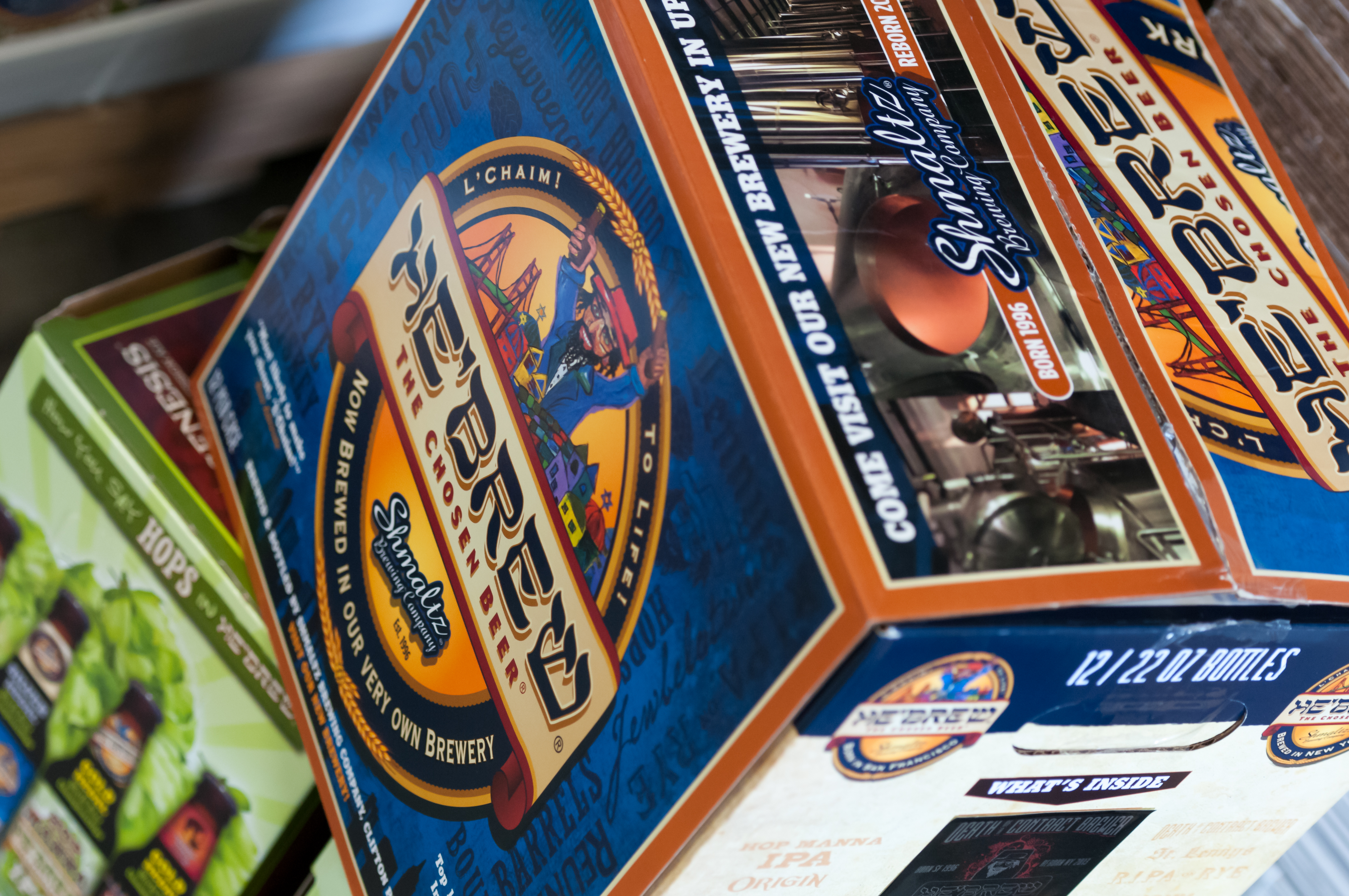 After 17 years of being an outspoken cheerleader for contract brewing, in 2013, Shmaltz broke with tradition and opened its own New York State production brewery in Clifton Park, NY, 10 minutes north of Albany's capital district. Shmaltz commemorated this rebirth by brewing He'brew Death of a Contract Brewer Black IPA with 7 malts, 7 hops, 7%ABV to represent Shiva, the seven days of mourning observed in Jewish culture following the death of a loved one.